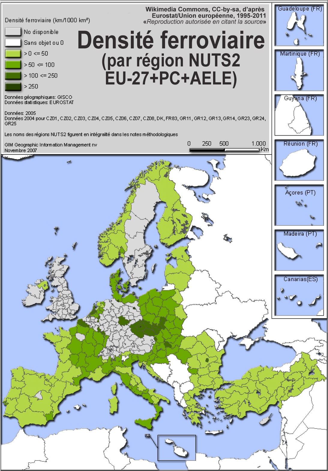 Density map rail, according to Eurostat, EU Transport: EN.pdf-regional rail networks, showing that "the highest densities are not limited to capital regions" or rich regions, but rather densely populated and highly industrialized formerly and / or port. . according to Eurostat statistics (Bulletin: Statistics in Focus, with Copyright held by the European Union, 1995-2011, stating "Reproduction is authorized provided the source, unless otherwise specified."